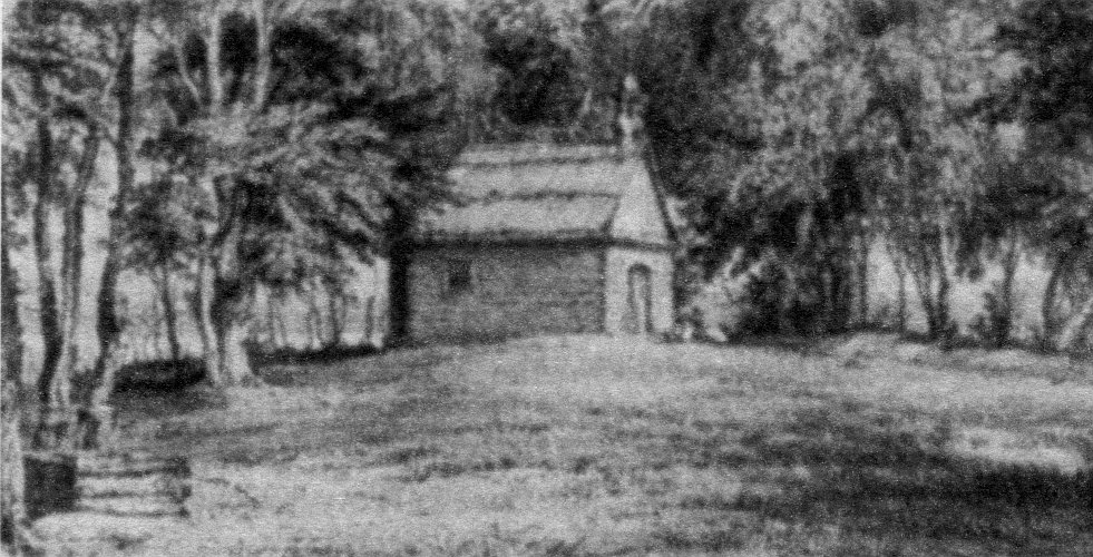 Wooden chapel of Blessed Virgin Mary in Studzieniczna (Poland), 1857.